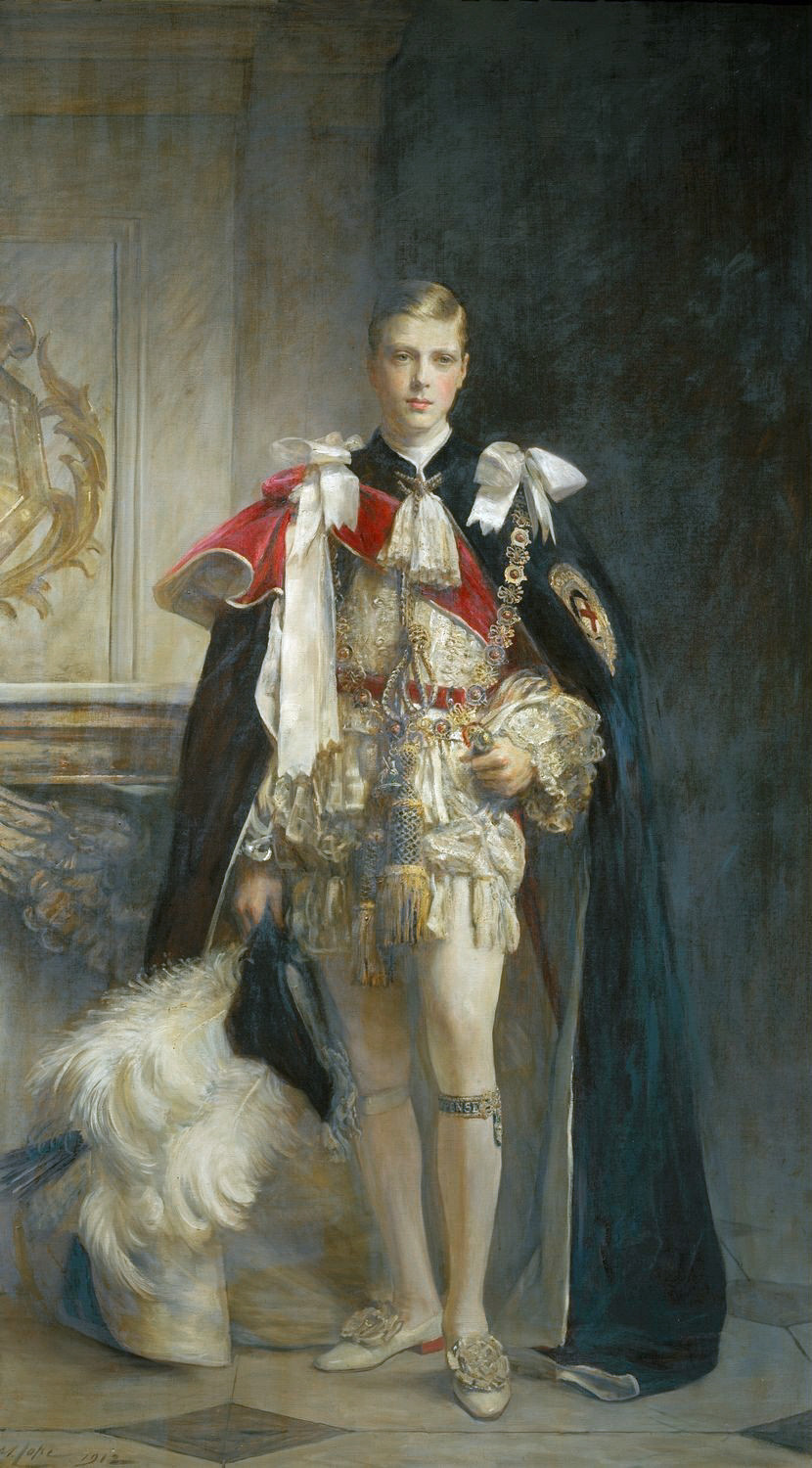 Portrait of King Edward VIII, when Prince of Wales